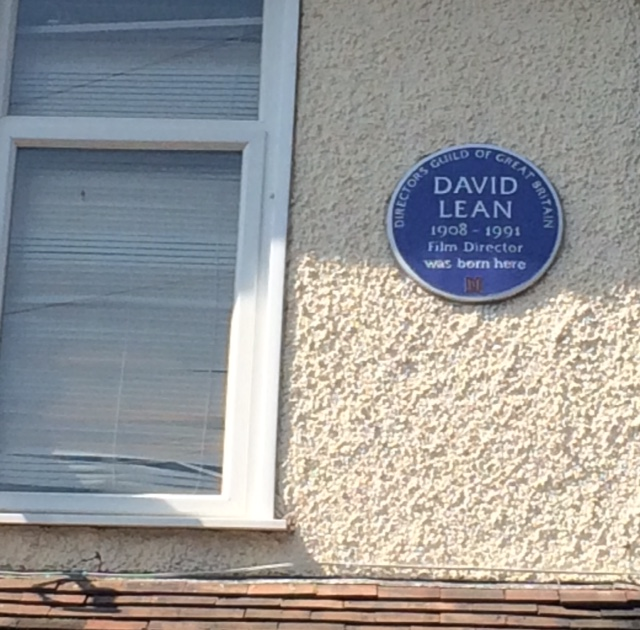 David Lean plaque